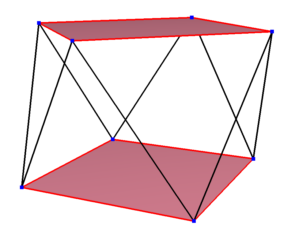 Skew polygon